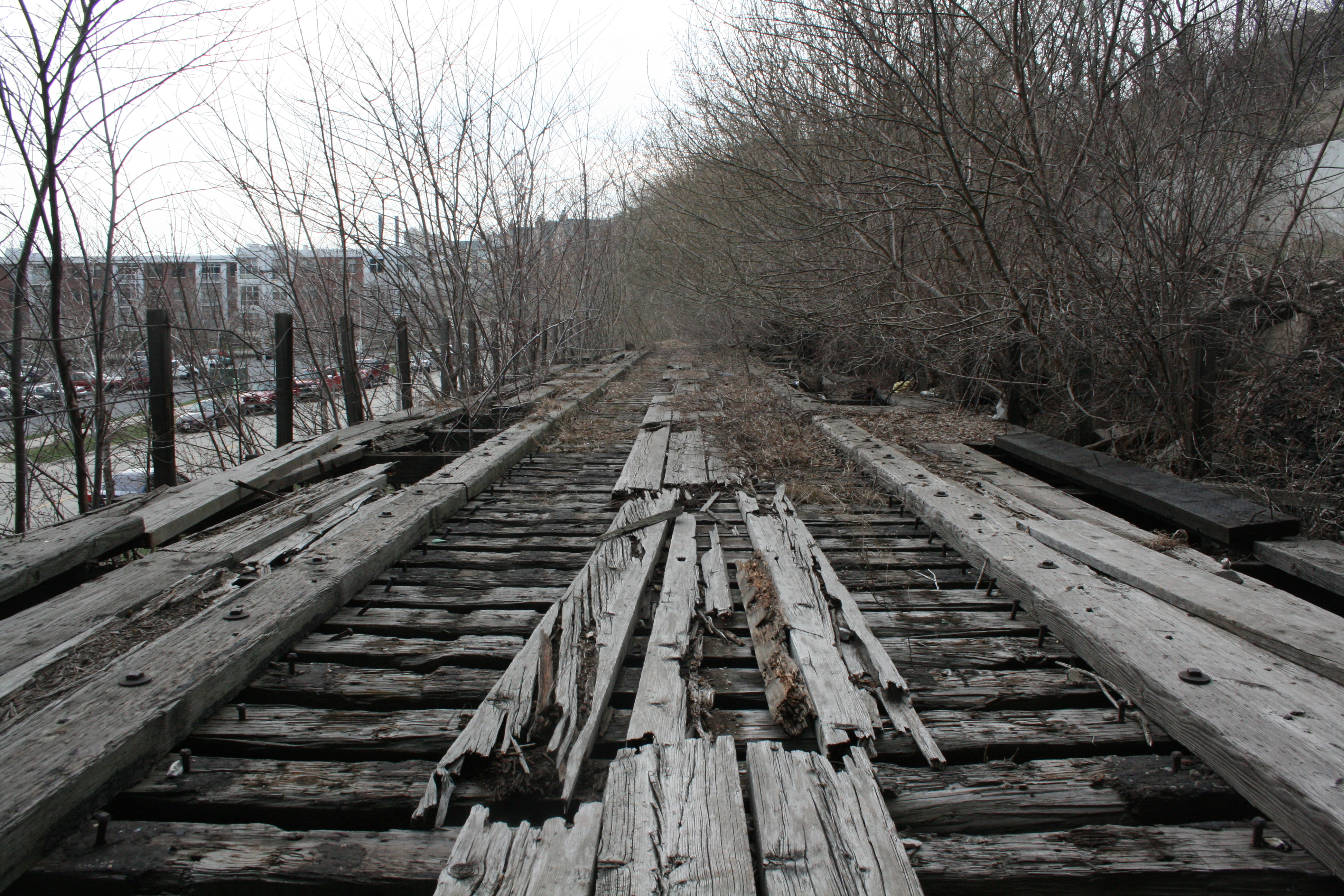 As of 2008, what is left of the Beerline B railroad spur, which once provided service to Pabst, Blatz, and Schlitz breweries just south of the Beerline B neighborhood in Milwaukee, Wisconsin.